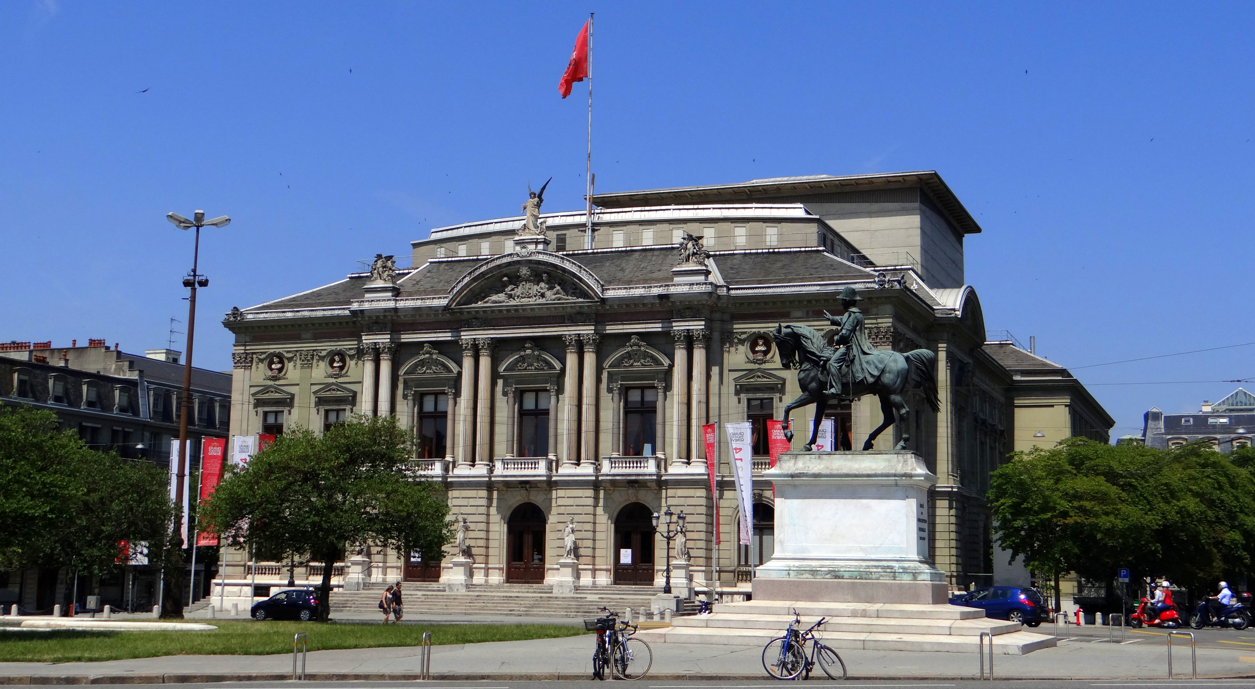 Place Neuve and General-Dufour-Statue